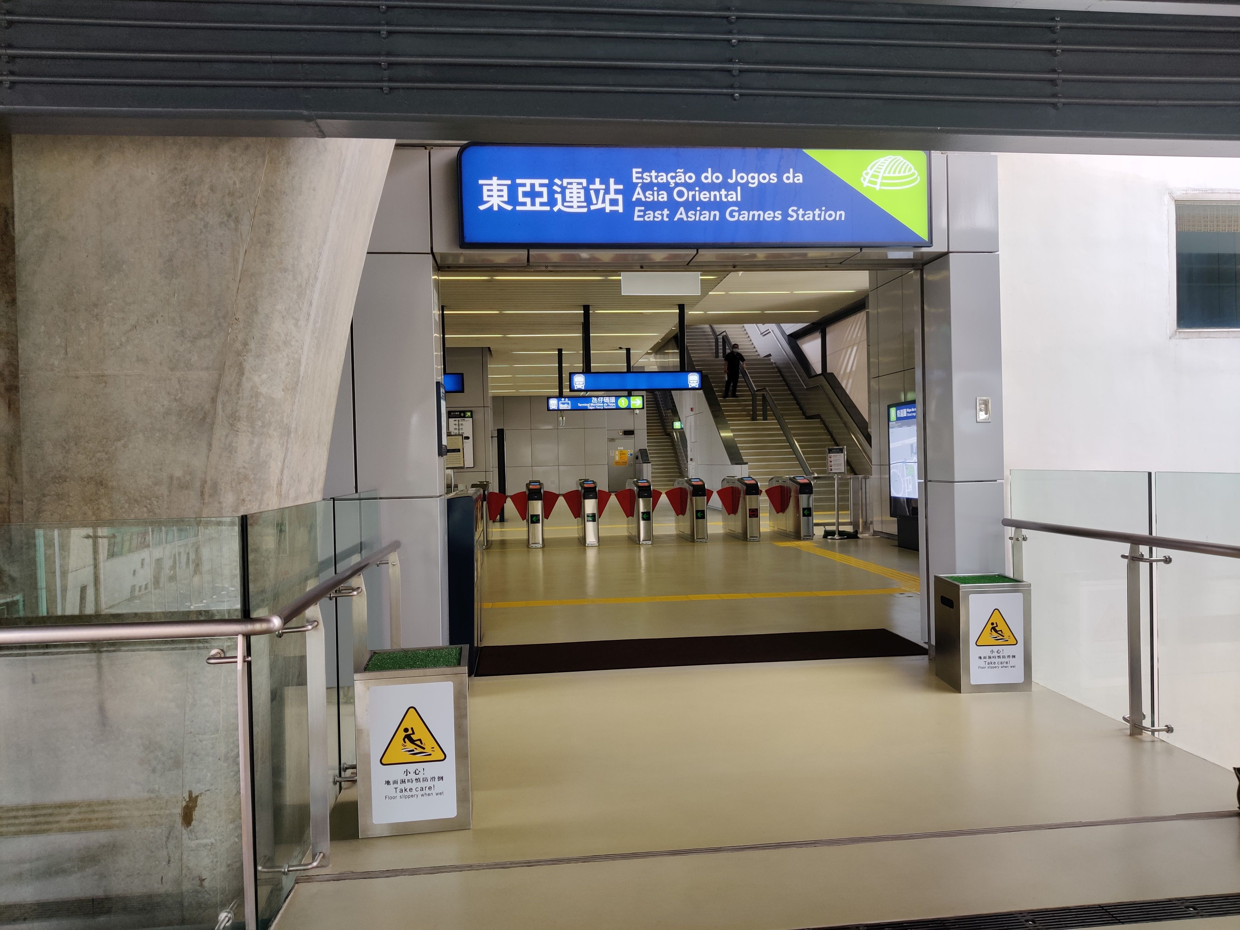 Entrance of East Asian Games Station, Macau LRT